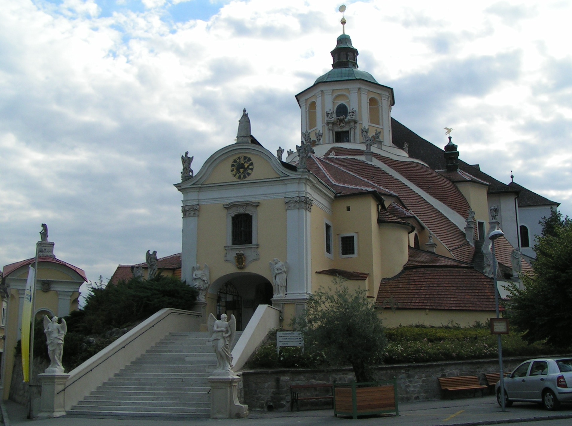 Haydn Church in Eisenstadt